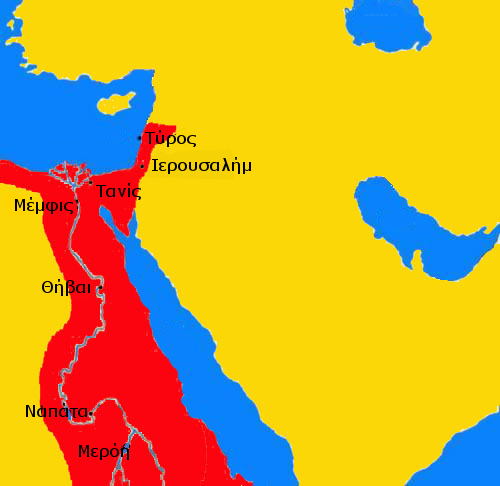 Greek translation of File:Kushite empire 700bc.jpg